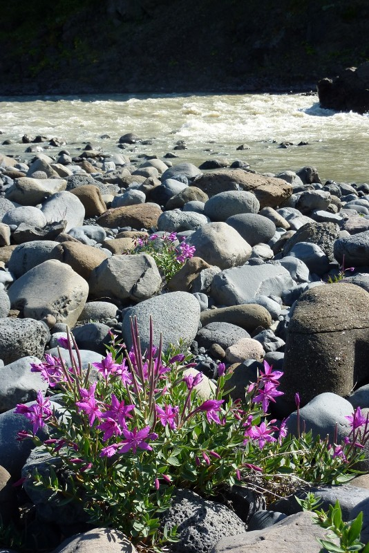 Arctic beauty (chamerion latifolium) grows next to Morsá glacial river.